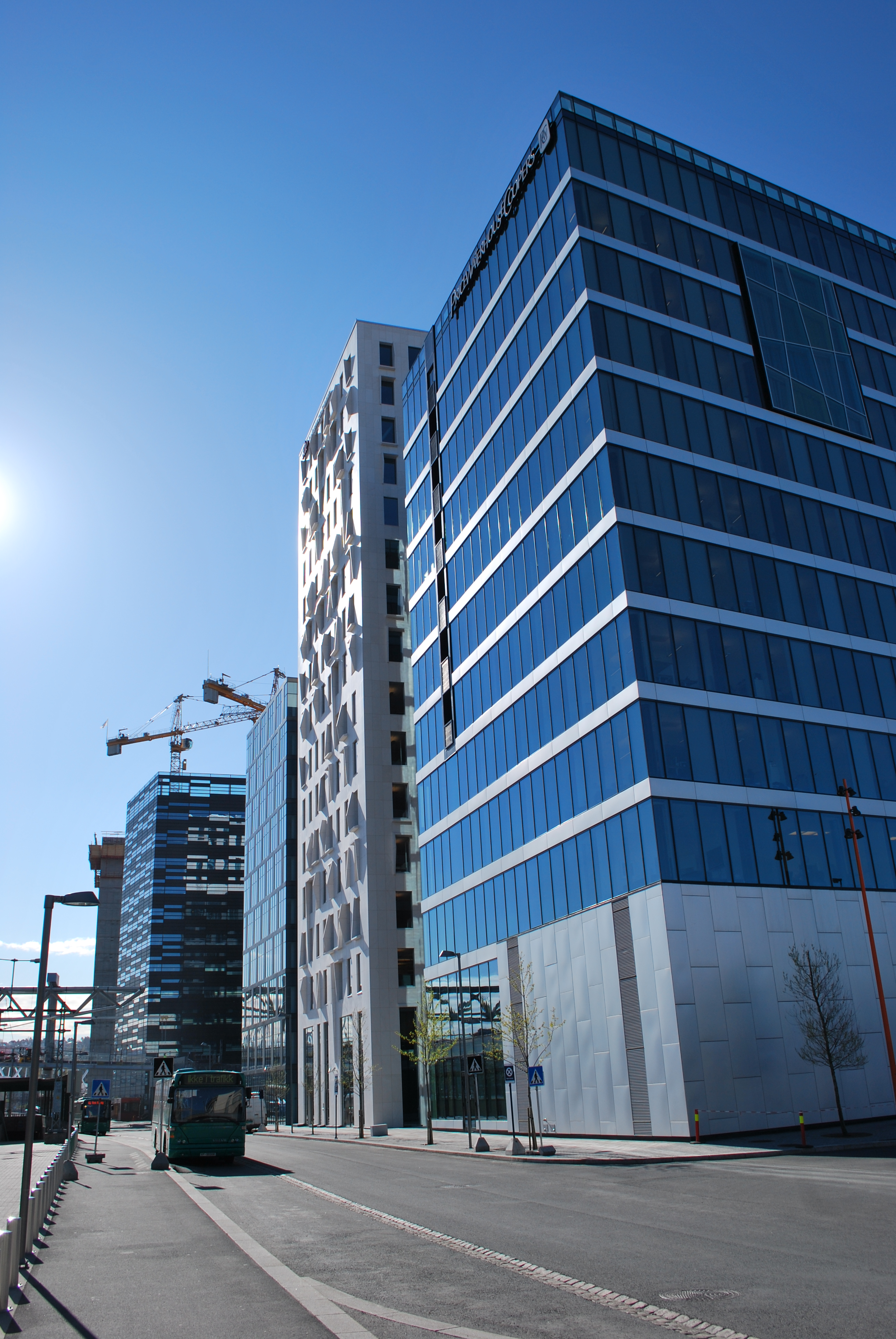 The project Barcode, part of the new Fjord City in Oslo, seen from west (Trelastgata), May 2010